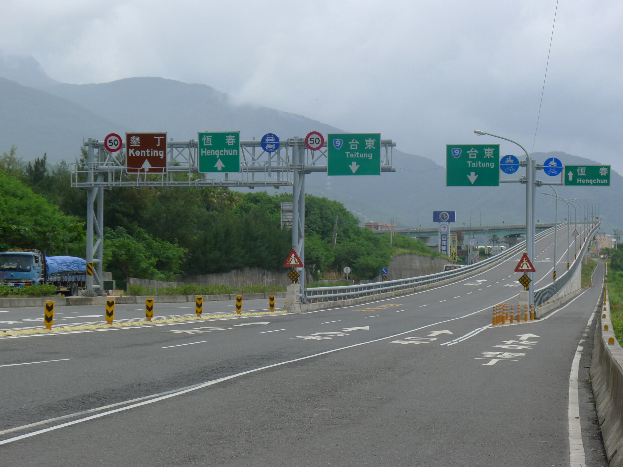 Looking south toward the New Fonggang Bypass.